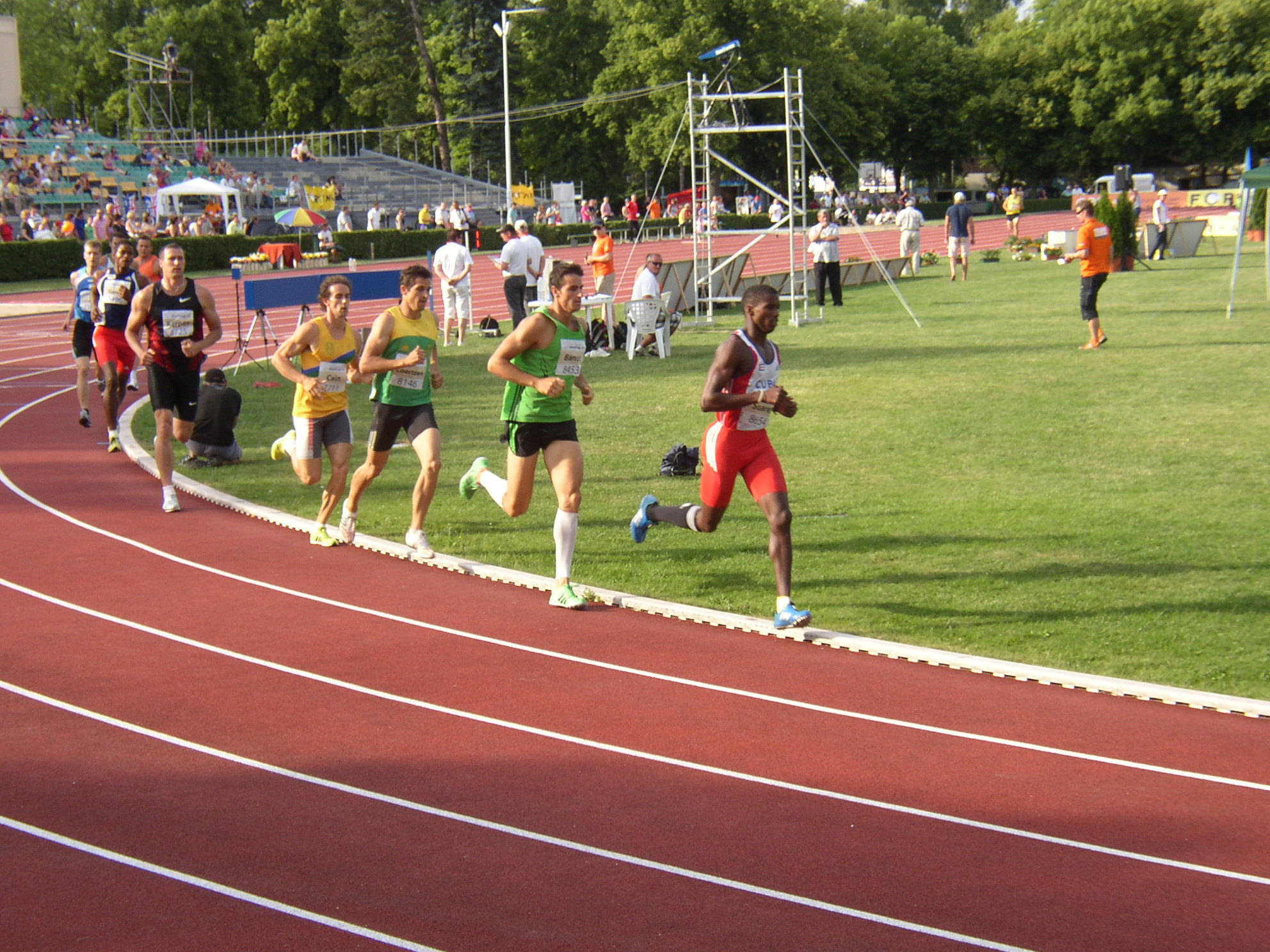 Athletes running in second lap of second 1500m run, closing event of men's decathlon at 5th edition of the TNT - Fortuna Meeting (IAAF World Combined Events Challenge Meeting, Sletiště Stadium, Kladno, Czech Republic, 16 June 2011, 18:25). from right foreground in order of race: Leonel Suárez (CUB) (position 4 in the 1500m race at that moment) Romain Barras (FRA) Willem Coertzen (RSA) Stephen Cain (AUS) Dmitriy Karpov (KAZ) Yordanis García (CUB) Einar Lárusson (ISL) Carlos Chinin (BRA) (almost obscured by García) Brent Newdick (NZL) Darius Draudvila (LTU) (far behind in upper right)